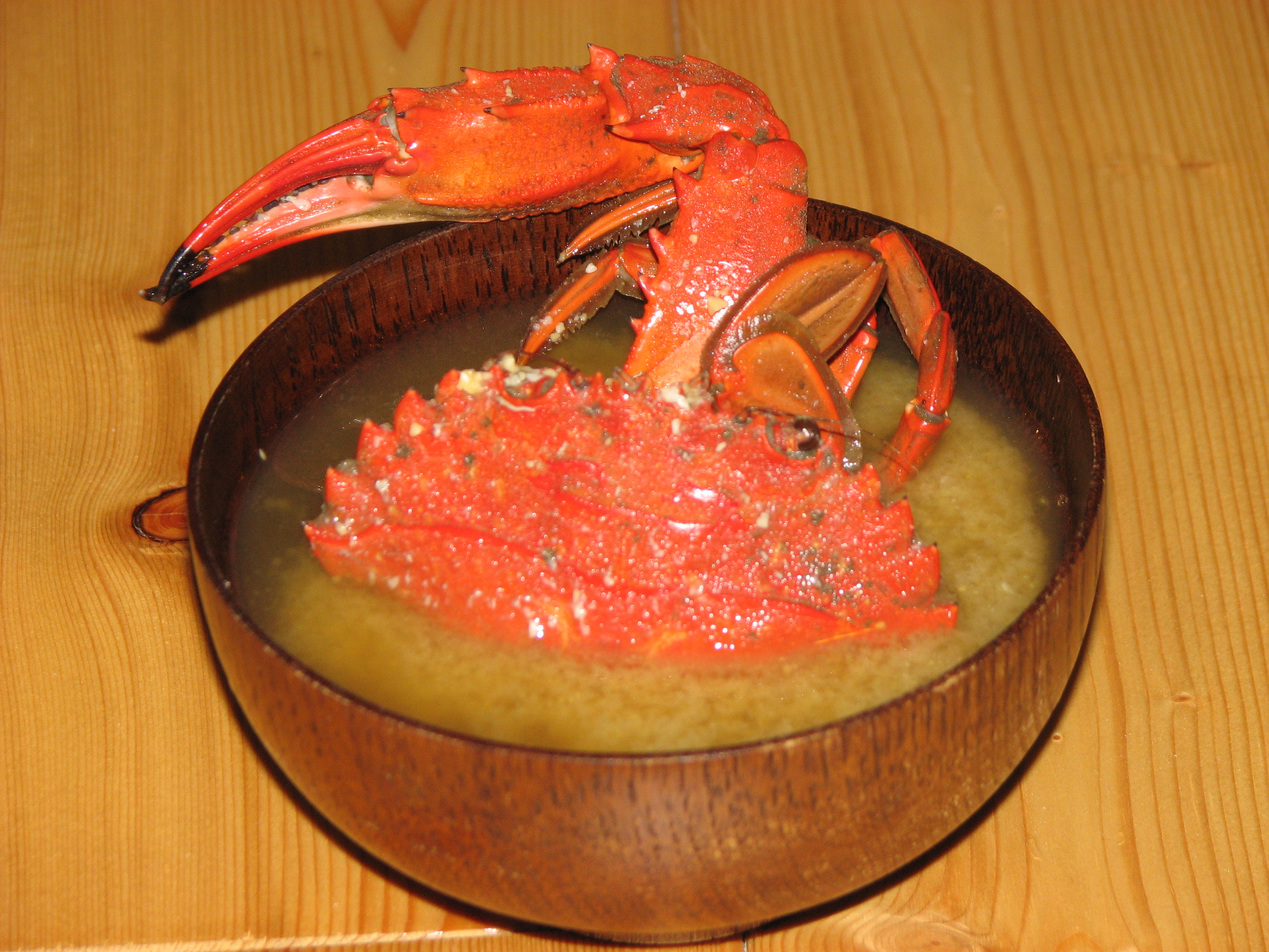 Miso soup of Charybdis japonica(イシガニの味噌汁)